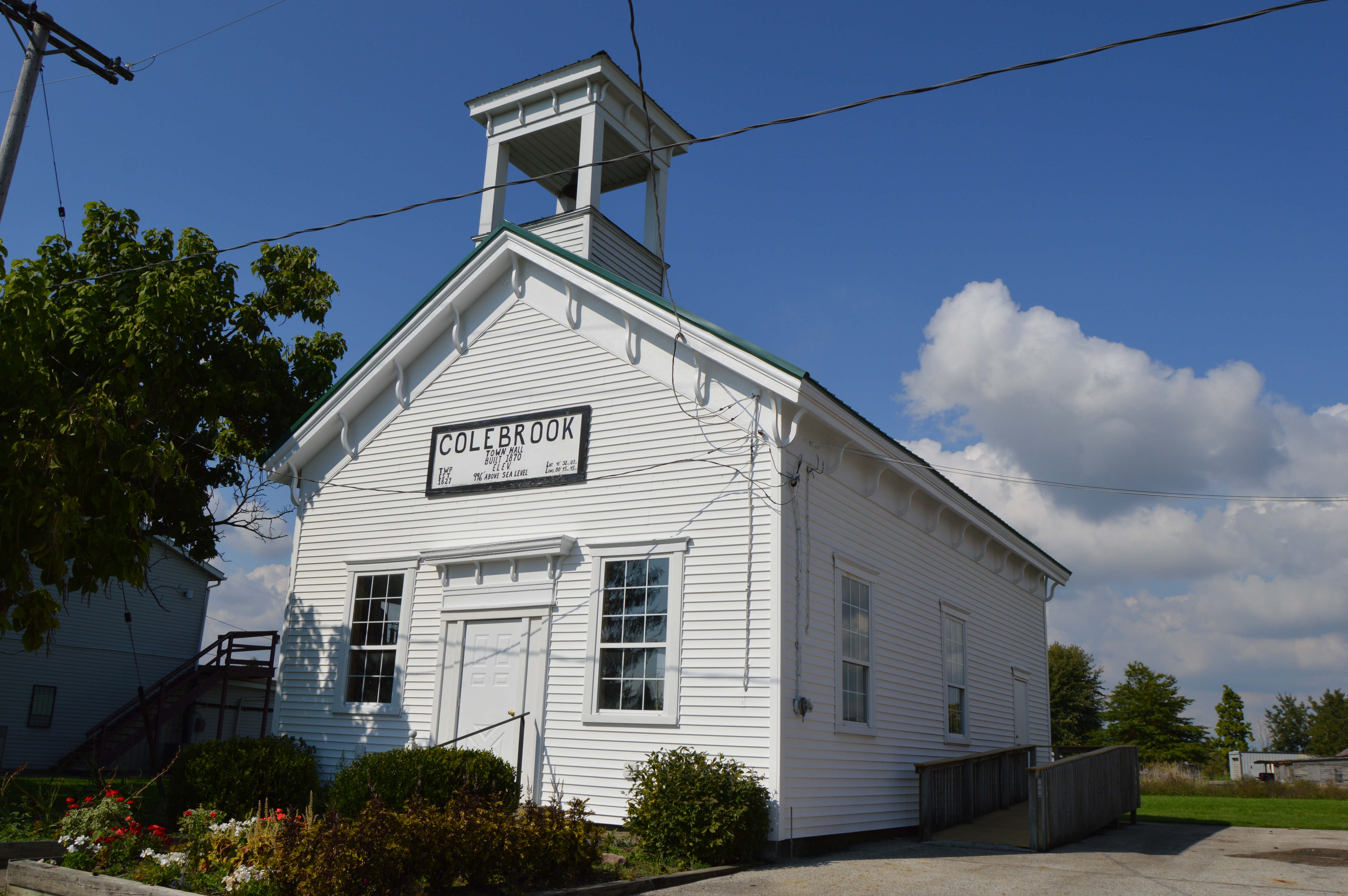 Front and eastern side of the Colebrook Township Hall, located off State Route 46 on the town green at Colebrook, Ohio, United States. It was built in 1870.